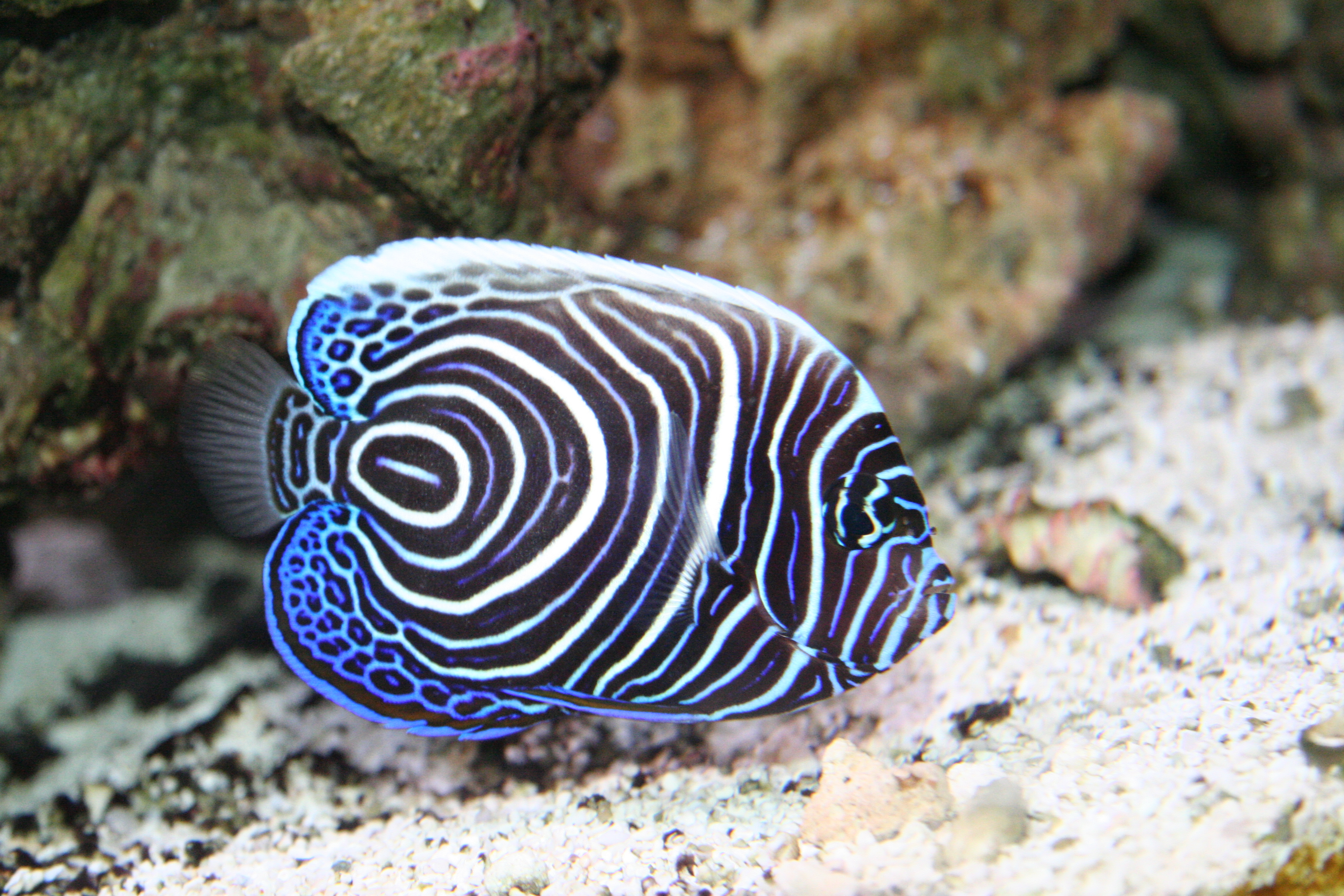 Our new baby Emperor Angelfish (Pomacanthus imperator, juvenile)